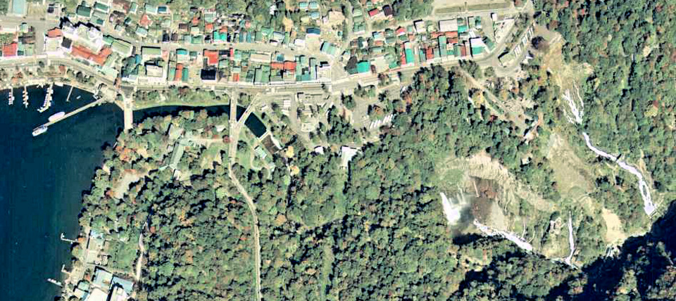 Japan: aerial view of lake Chūzenji's east shore and the Ōjiri river in Nikkō (Tochigi prefecture).